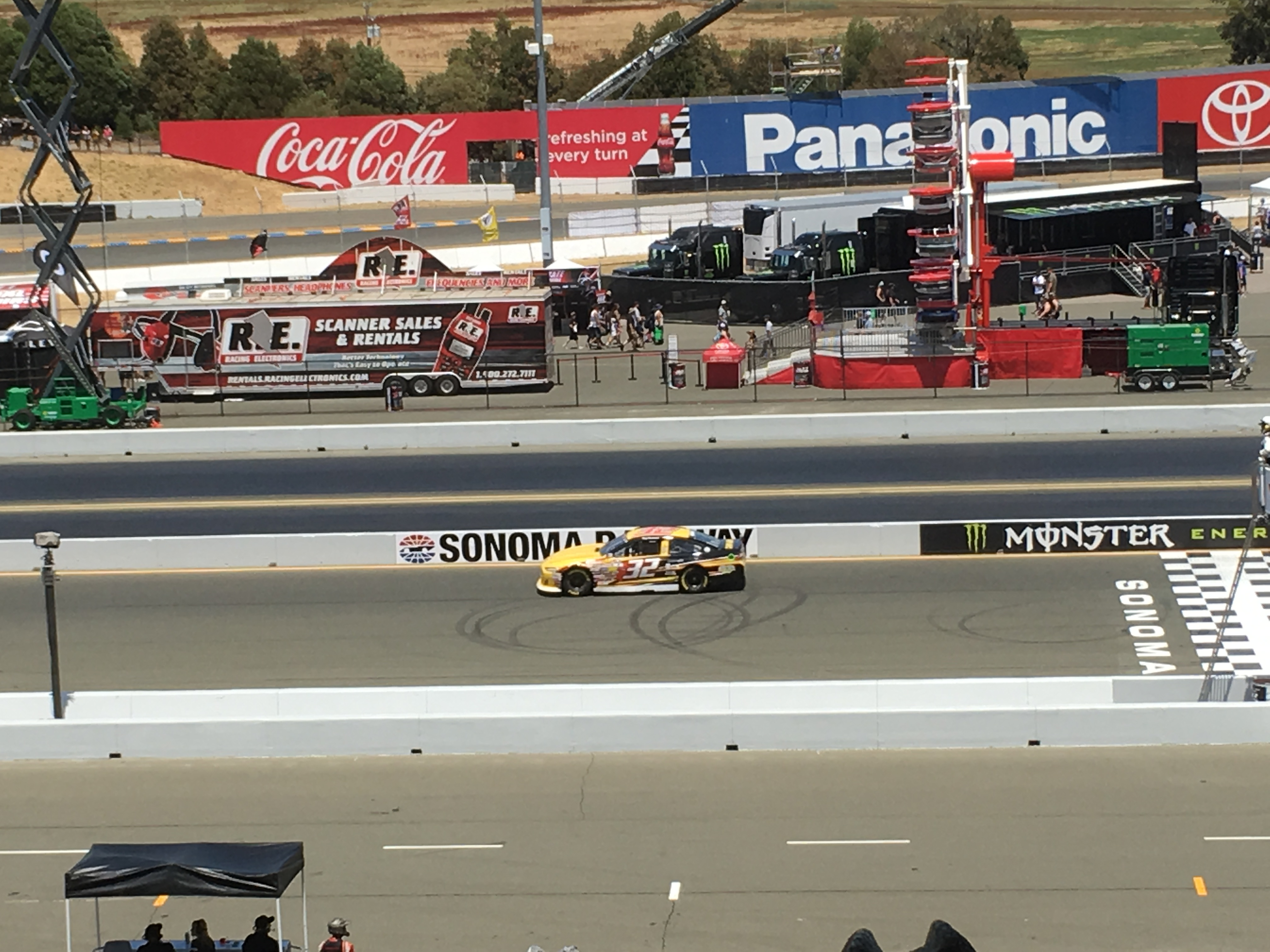 Kody Vanderwal during the 2017 Carneros 200.